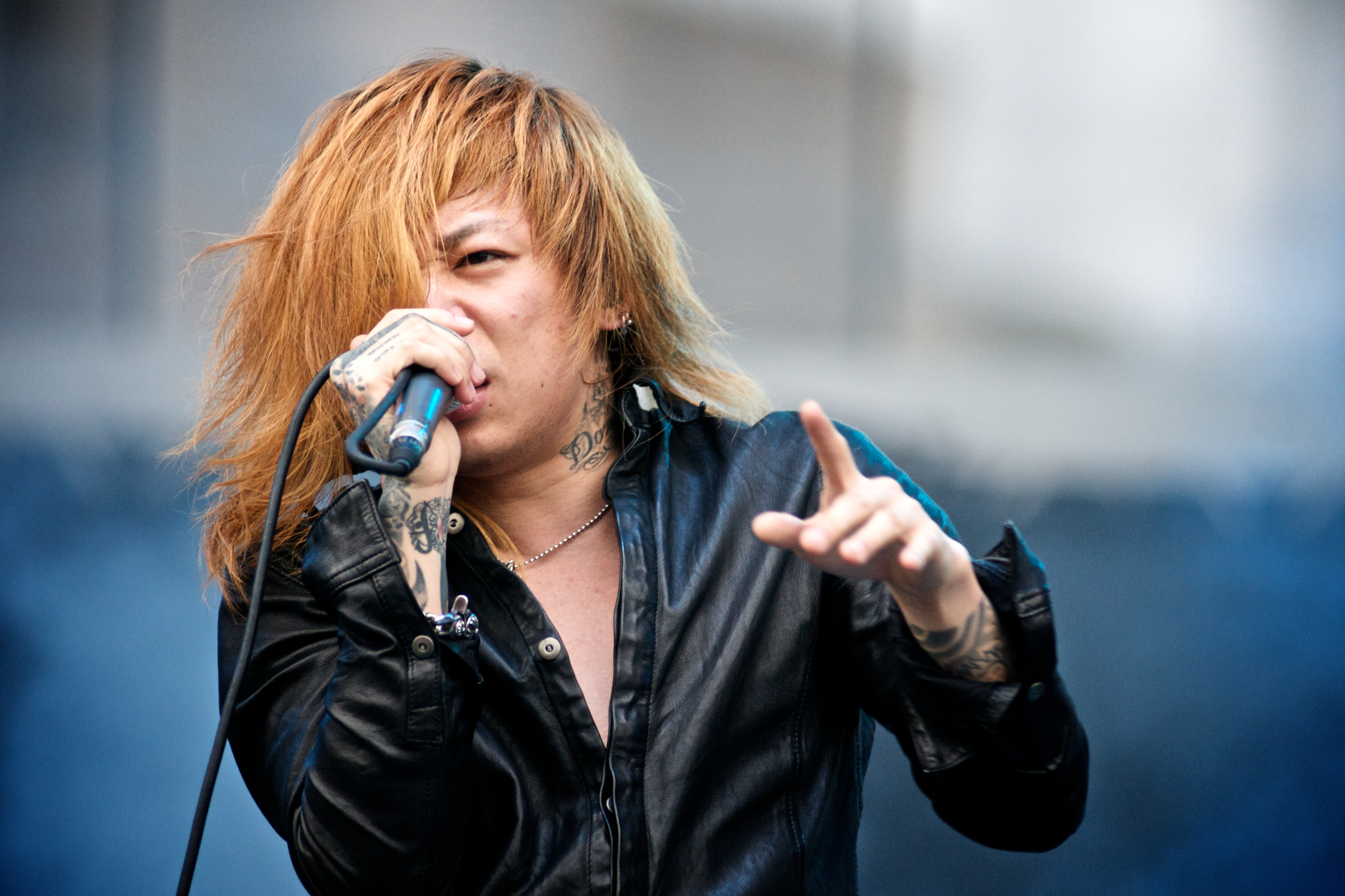 Dir En Grey in Maquinária Festival, occurred in November 8 2009 at São Paulo, Brazil.